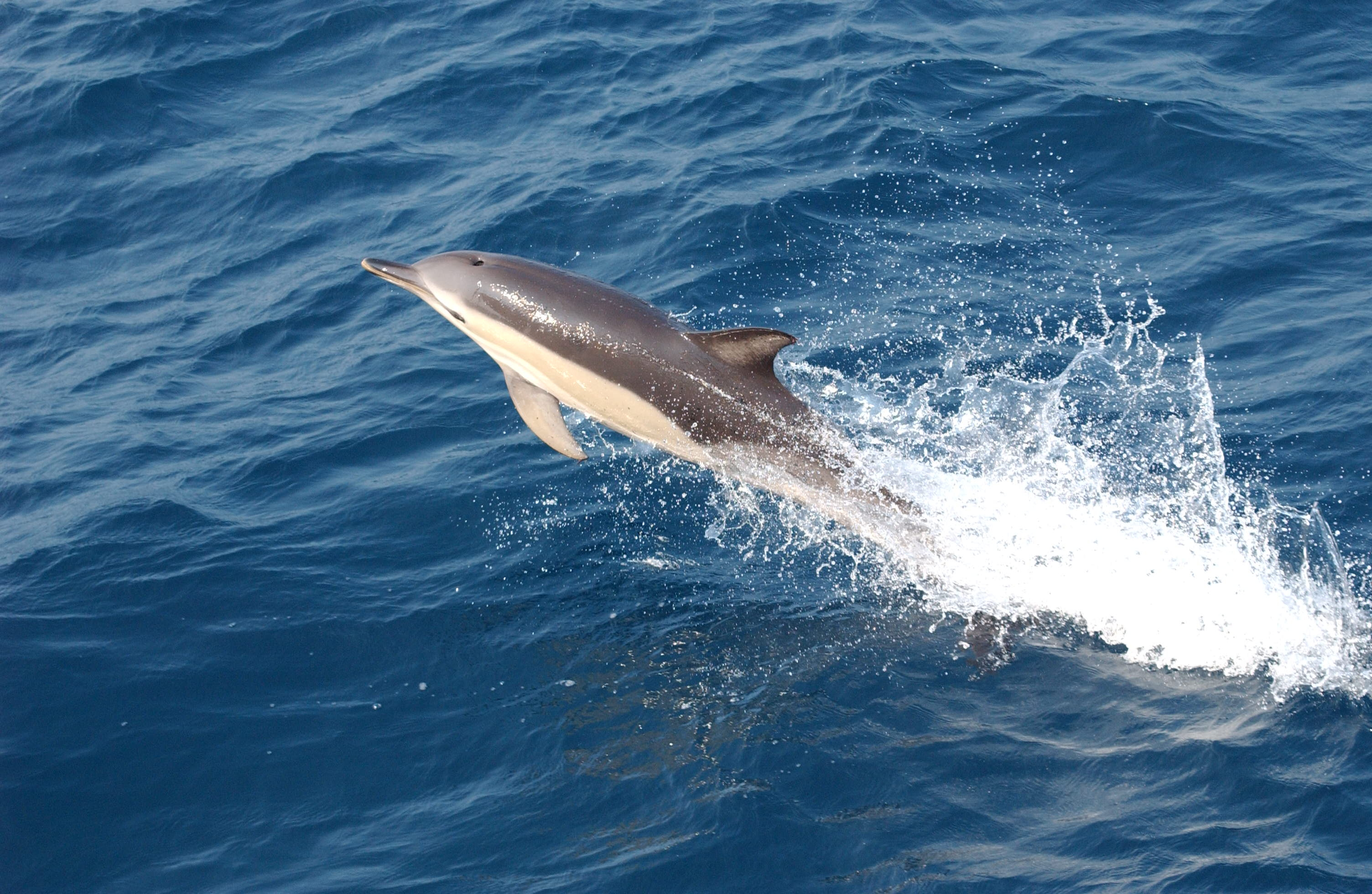 Common dolphin (Delphinus sp.) July 9, 2004.